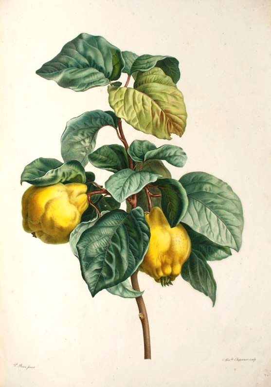 Painting of quince fruit and foliage